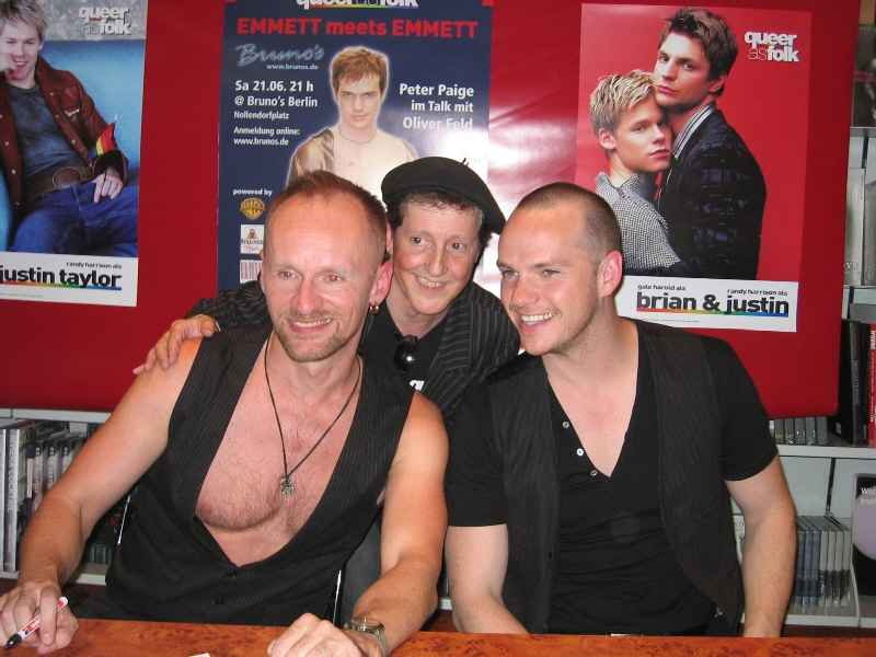 Peter Paige (right) with Oliver Feld (left, German Voice of "Emmett") and Santiago Ziesmer (in the middel, German Voice of "Ted")